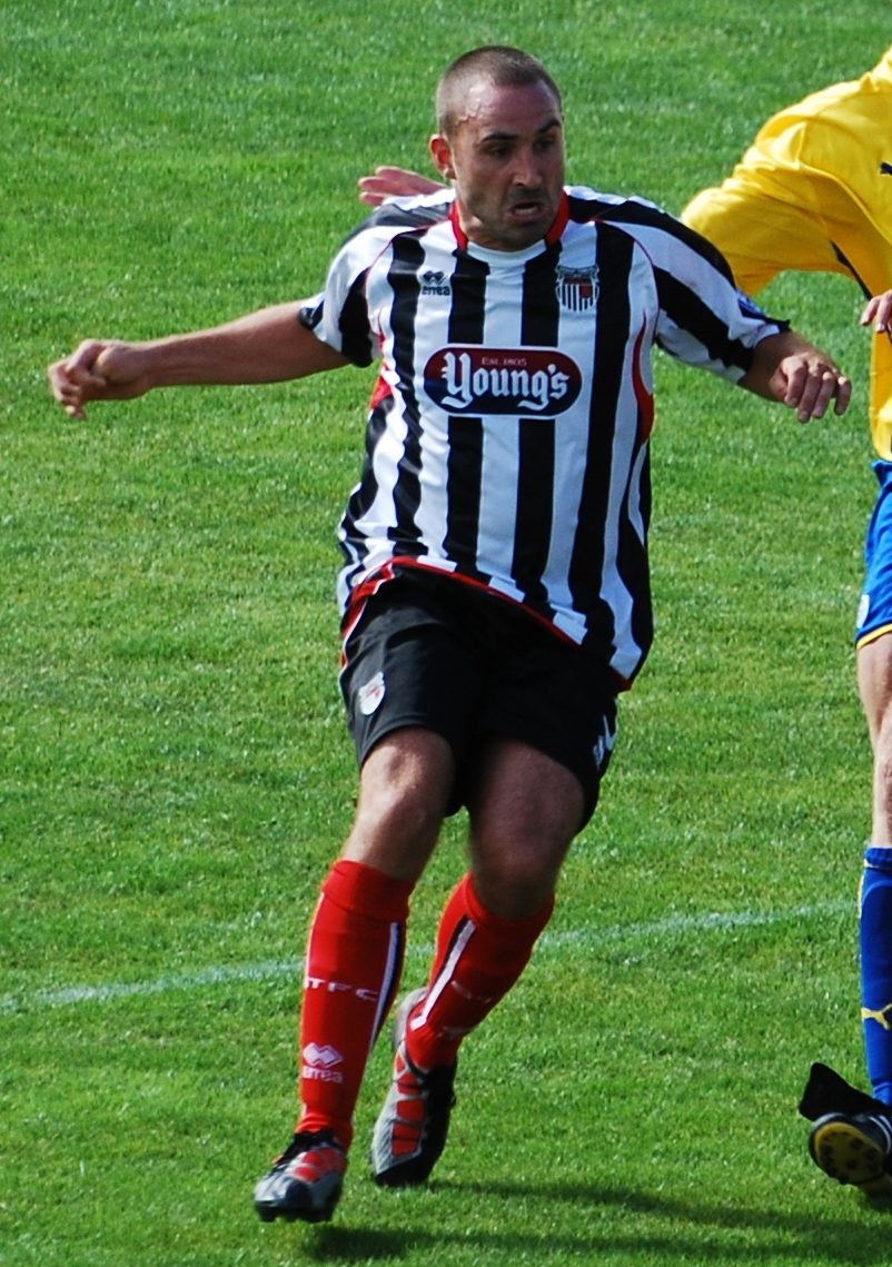 Lee Ridley. Image cropped from original at flickr.